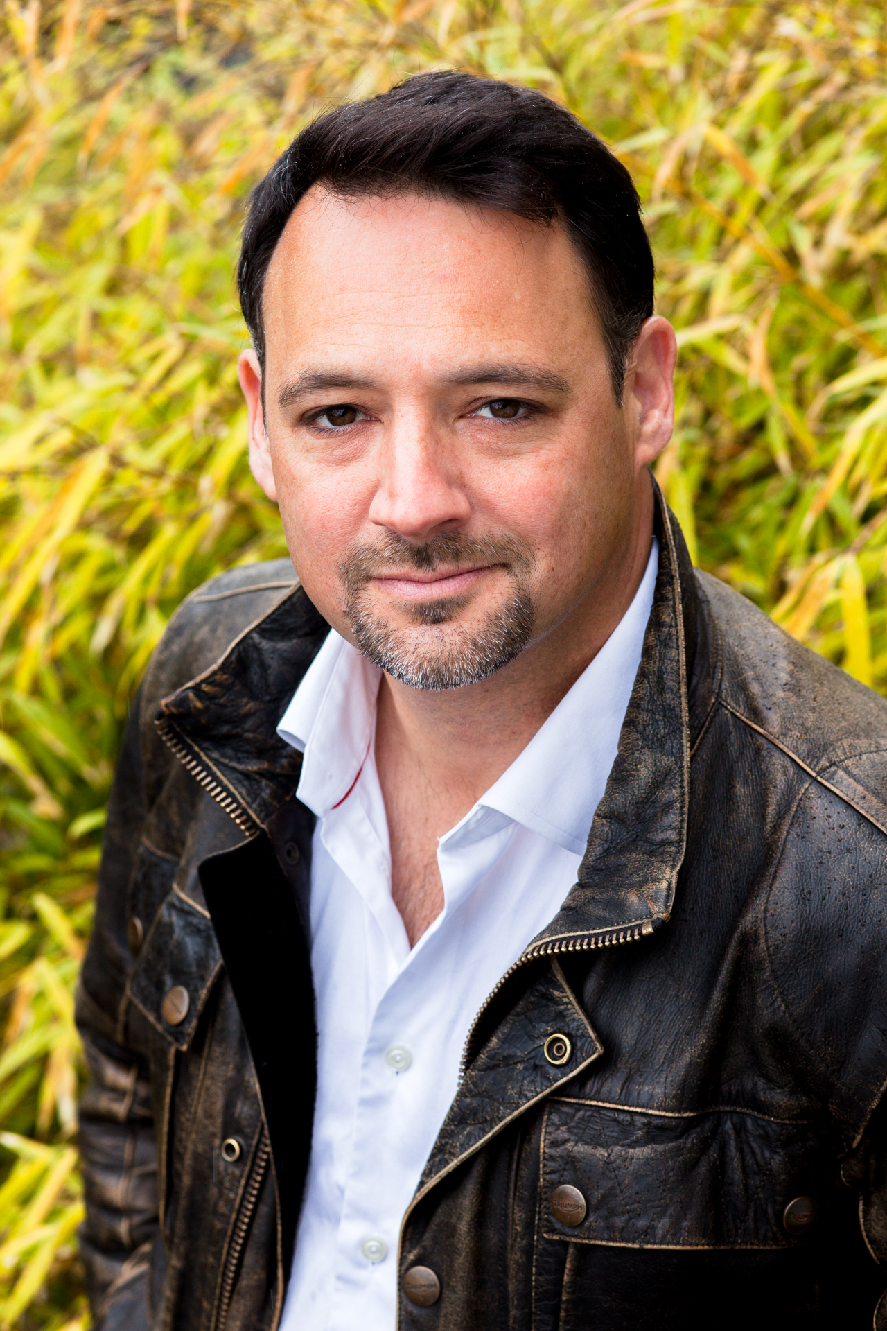 Derek B. Miller, American Novelist, in Oslo, Norway 2017.